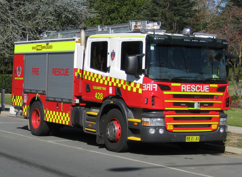 NSW Fire Brigades pumper 428 Scania, Queanbeyan Australia